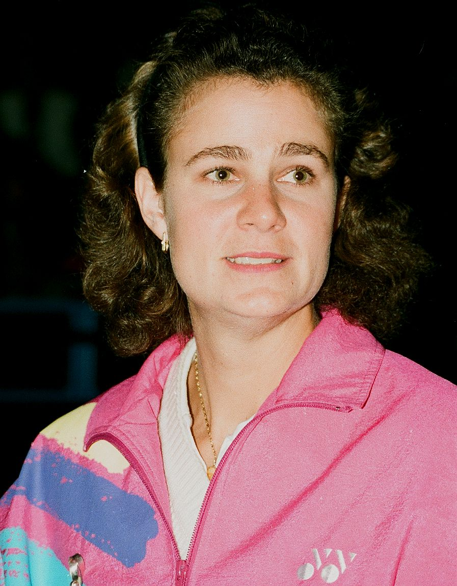 Baltimore M.D. Pam Shriver annnual tennis classic November 1993